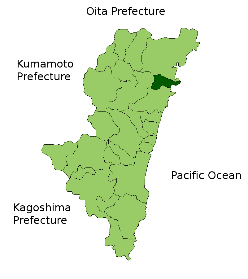 Location Map of Kadogawa in Miyazaki Prefecture, Japan